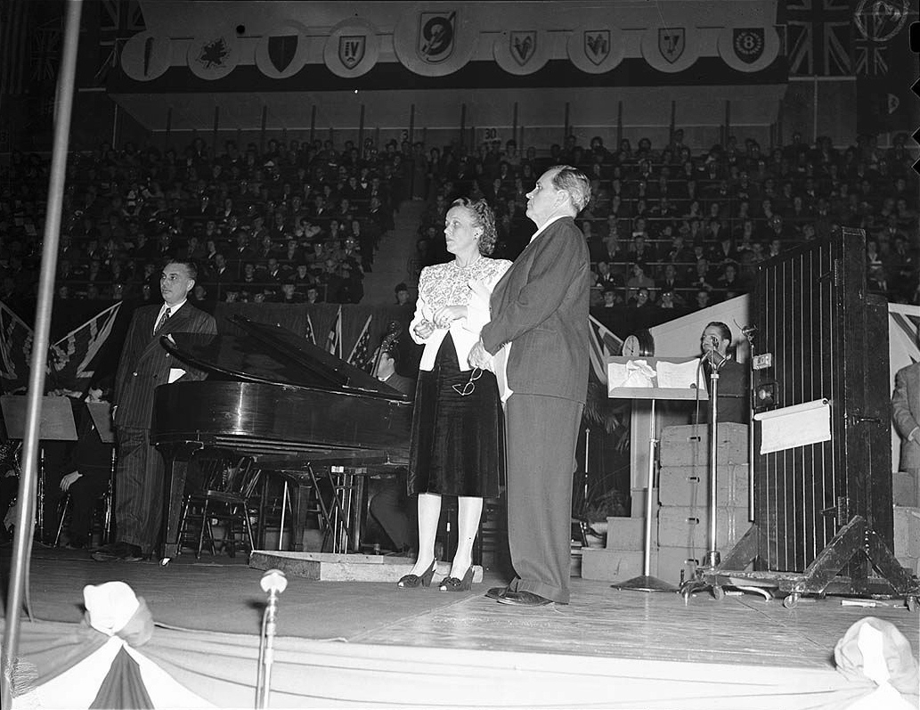 U.S. Radio stars Fibber McGee and Molly (James "Jim" and Marian Driscoll Jordan) at Victory Loan rally, Maple Leaf Gardens. Toronto, Canada.